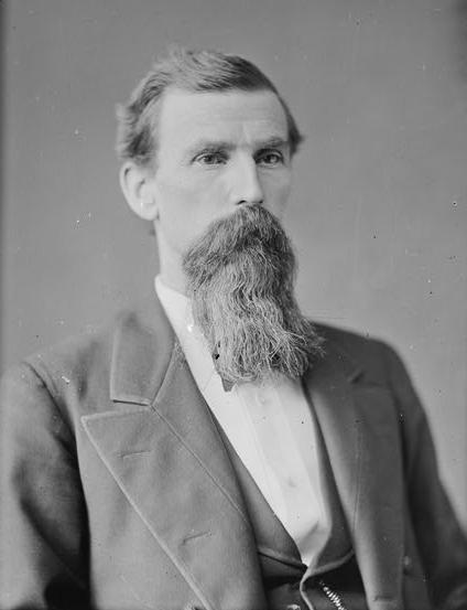 Williams, Hon. Jeremiah Norman of Ala. Captain of the Clayton Guards, C.S.A. later Major of the First Ala Inf. CSA.